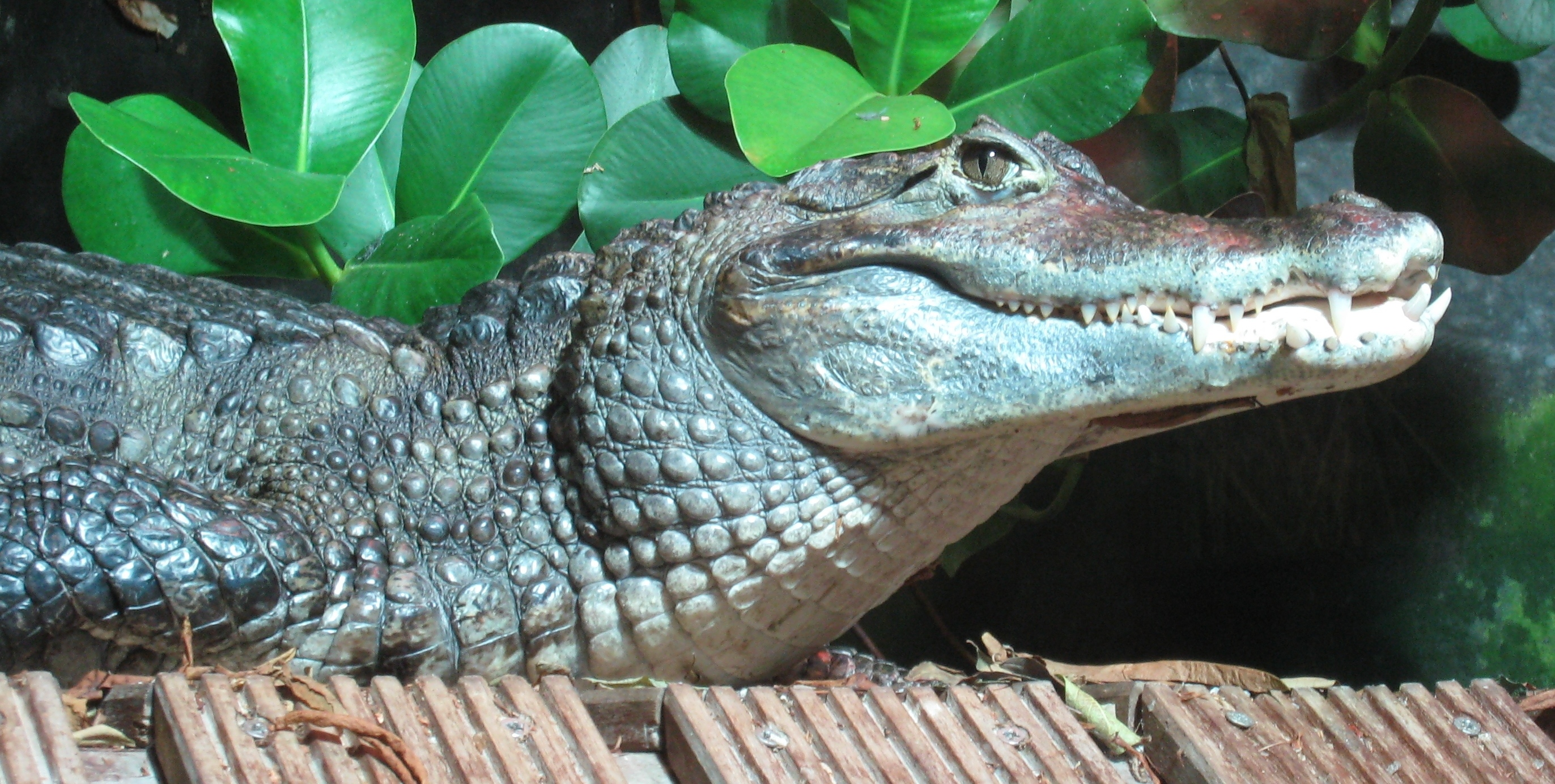 Caiman crocodilus at Nausicaä Centre National de la Mer